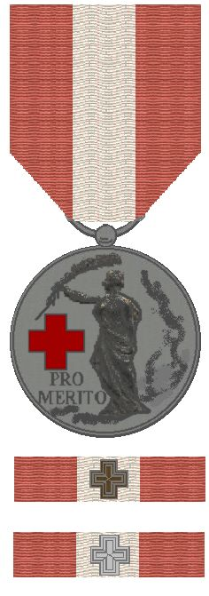 Medal of Merit. Dutch Red Cross